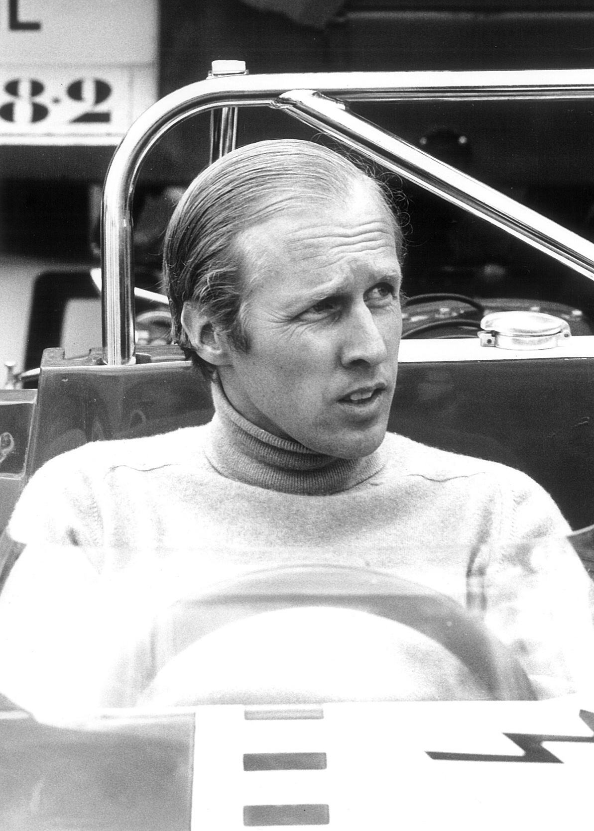 Ed Swart, sitting in his Chevron B19 just before the last FIA 2.0 Liter Sports-Prototype Race, Zandvoort, The Netherlands, September 26, 1971